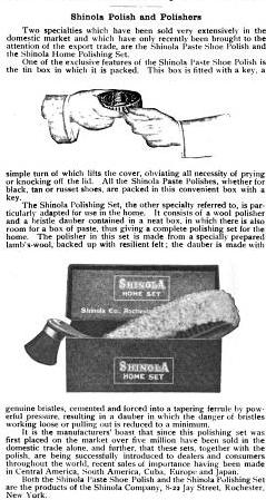 A detail from a page from Commercial America, an early 20th Century trade magazine.